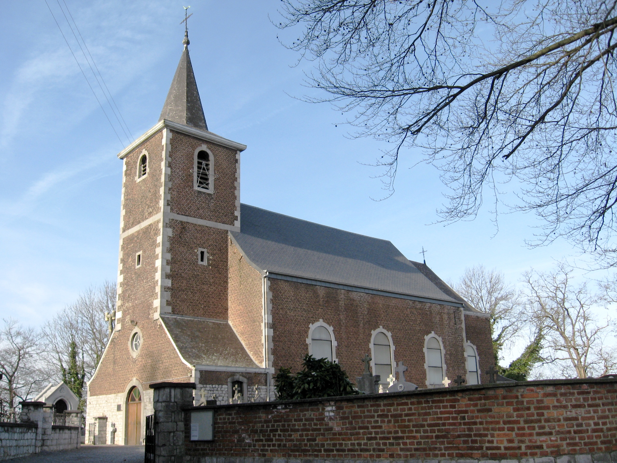 Church of Saint Fermin in Richelle, Visé, Liège, Belgium